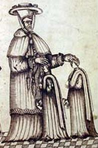 Portrait of Cardinal Gaspar Cervantes de Gaeta